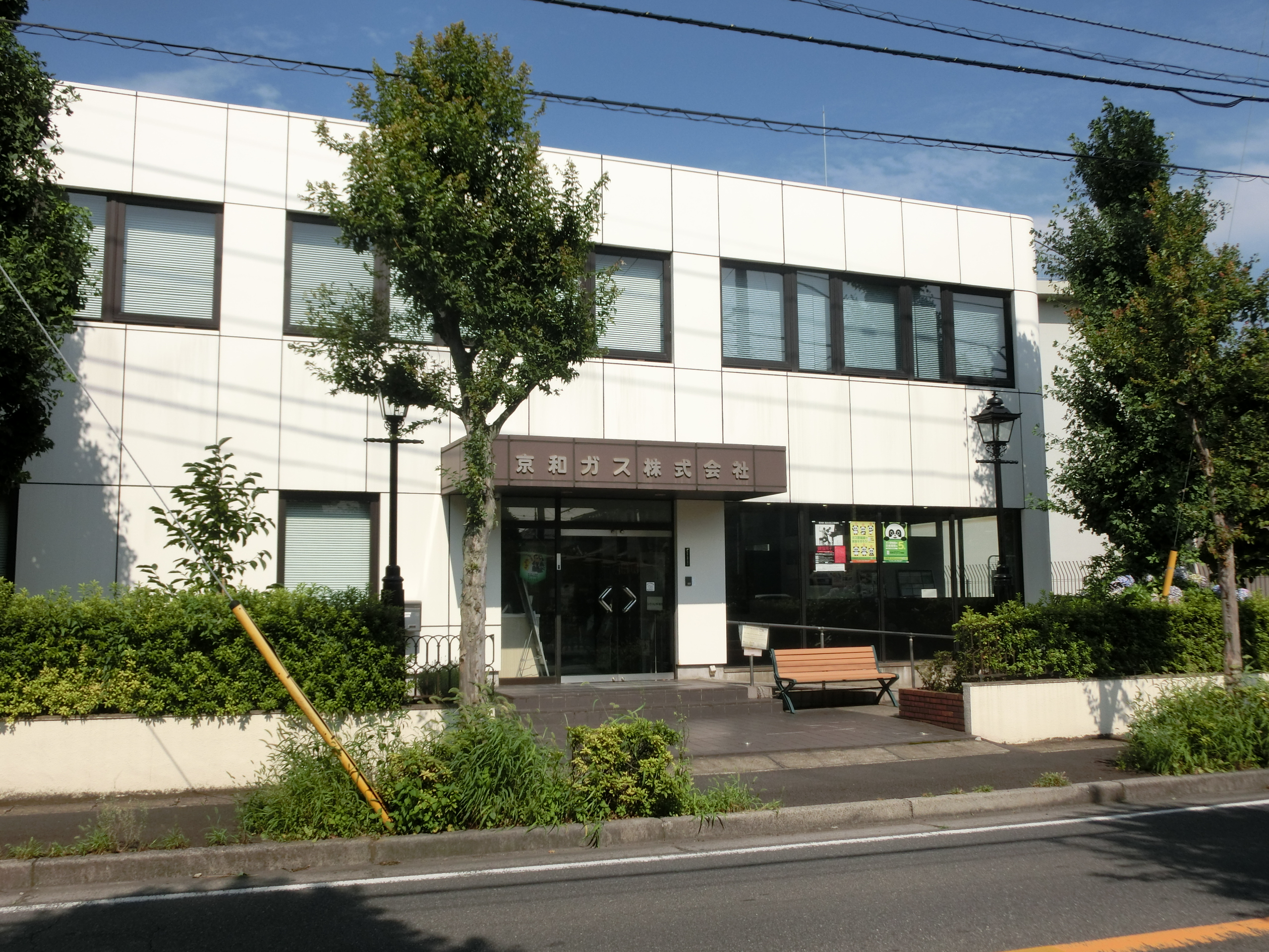 Keiwa Gas Head Office